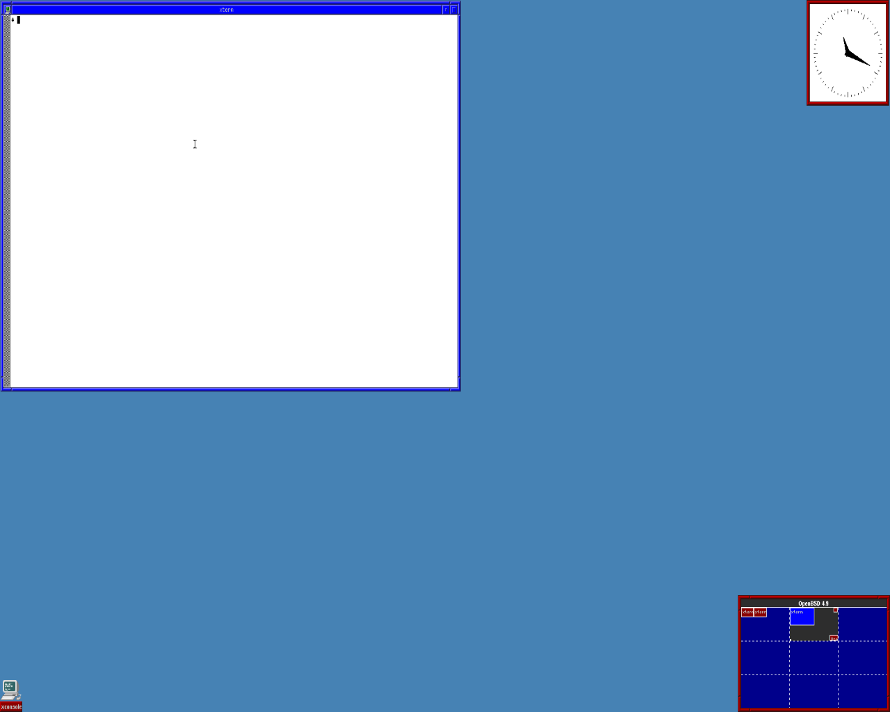 OpenBSD 4.9-RELEASE i386 using its default window manager, fvwm.